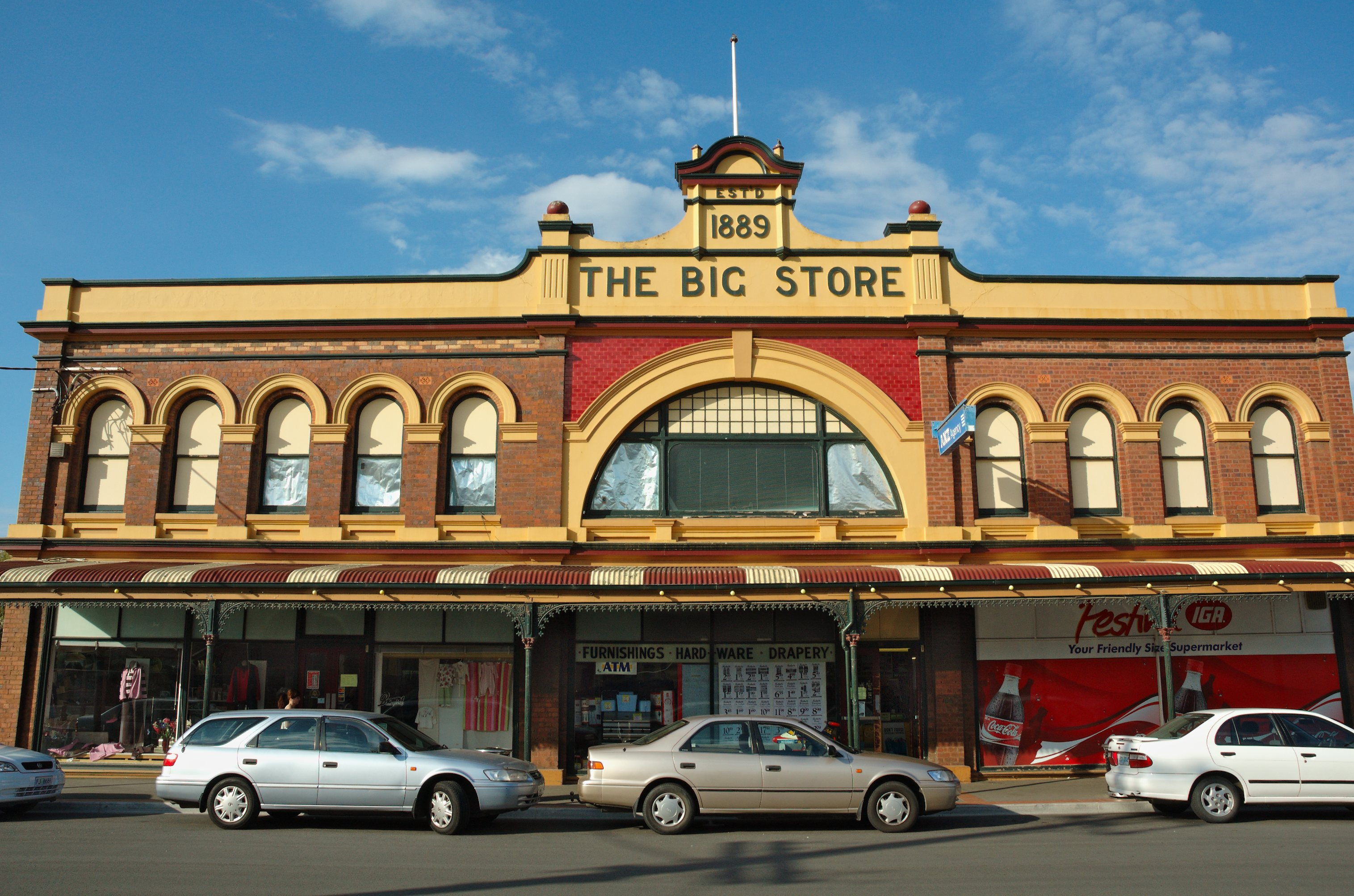 Brown's Big Store, Longford, Tasmania, at 73 Wellington Street, built in 1889.